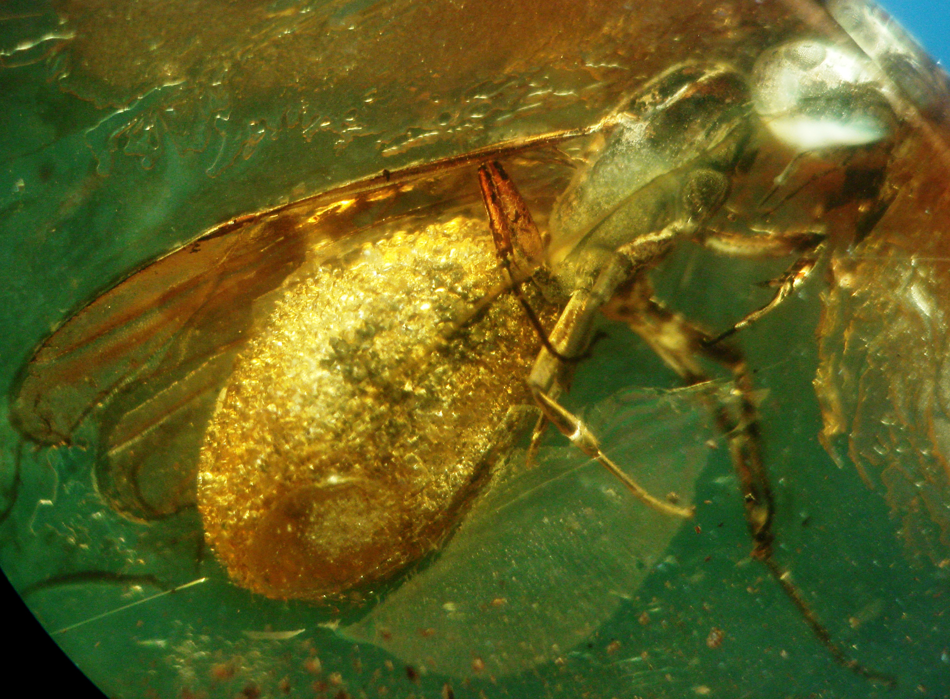 Baltic amber inclusions - 40-50 million years old - Ant (Hymenoptera, Apocrita, Vespoidea, Formicidae, ...?) About 6,3 mm long